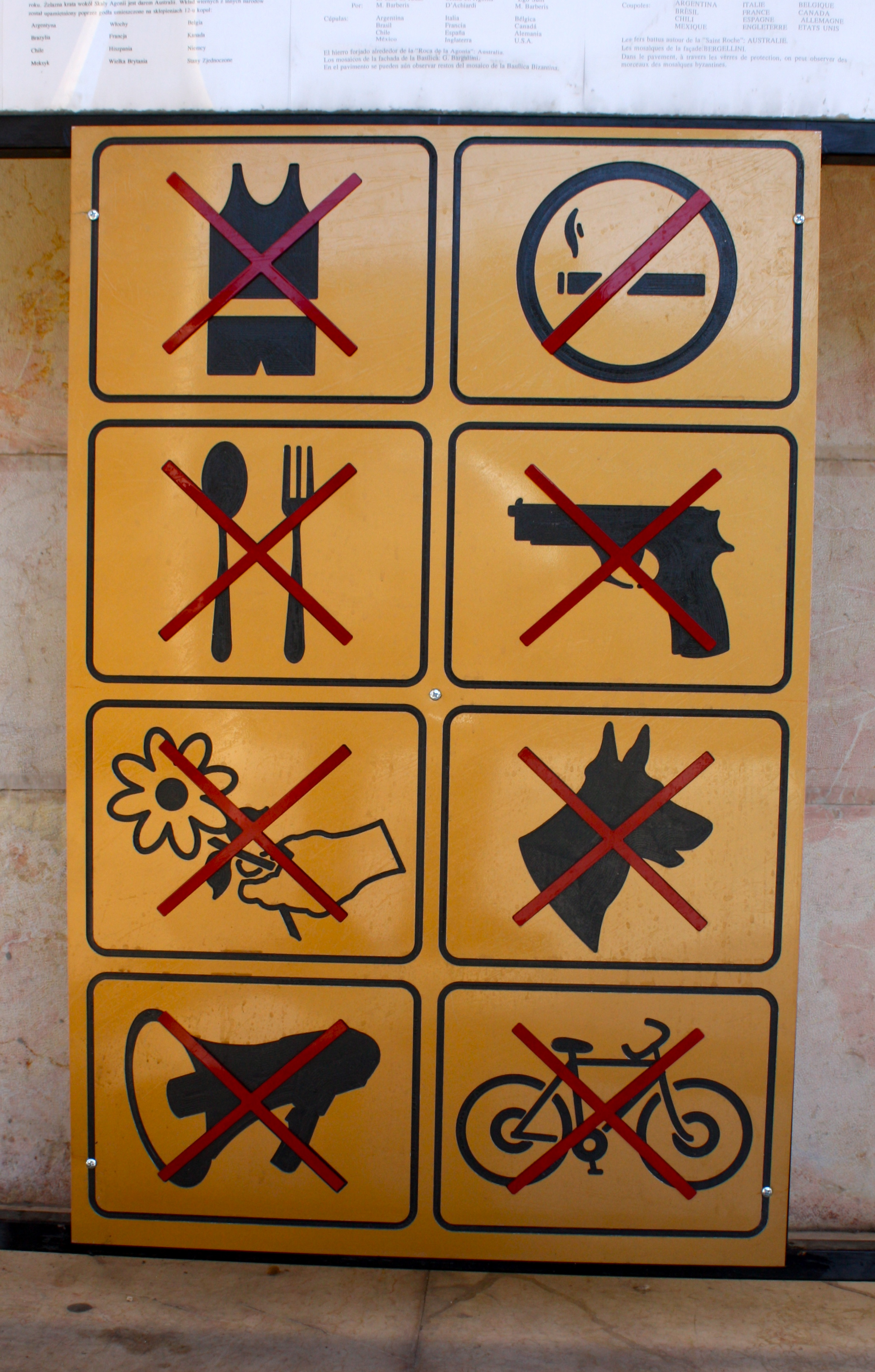 East Jerusalem - Mount of Olives - 13